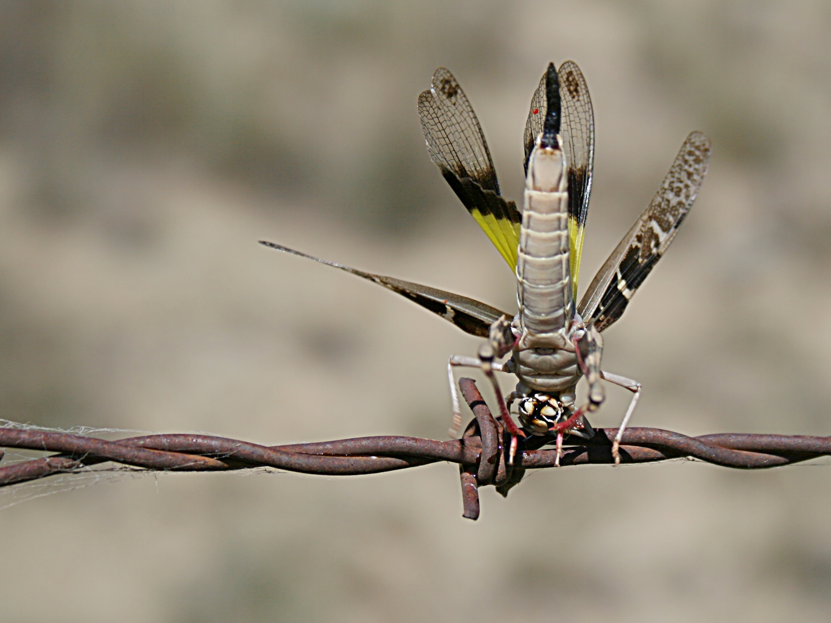 A Yellow-winged grasshopper (Gastrimargus musicus) caught in a barbed-wire fence. This species is most easily identified by its yellow back wings with black bands, but they are usually only visible when in flight (when it also makes a loud clicking noise). Compare for example the stationary grasshopper in the "Other versions" field. This image with the wings visible was captured in the few seconds during which the unfortunate grasshopper's head was stuck in a barbed wire fence it had flown into.